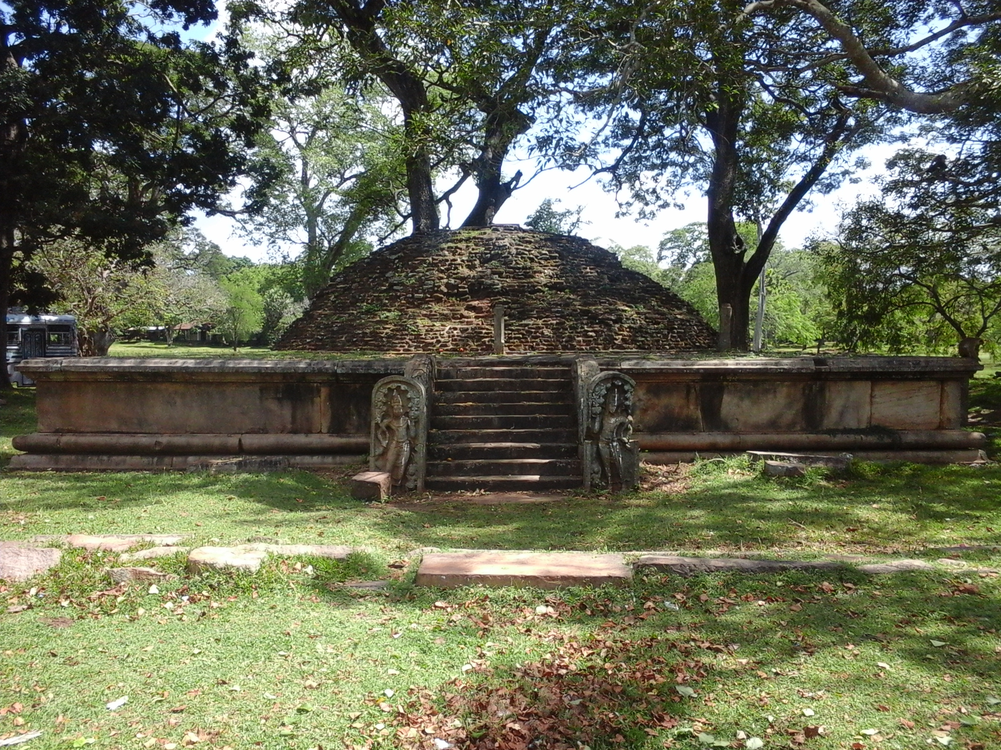 Silacetiya at Anuradhapura